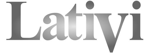 This is a logo of Lativi